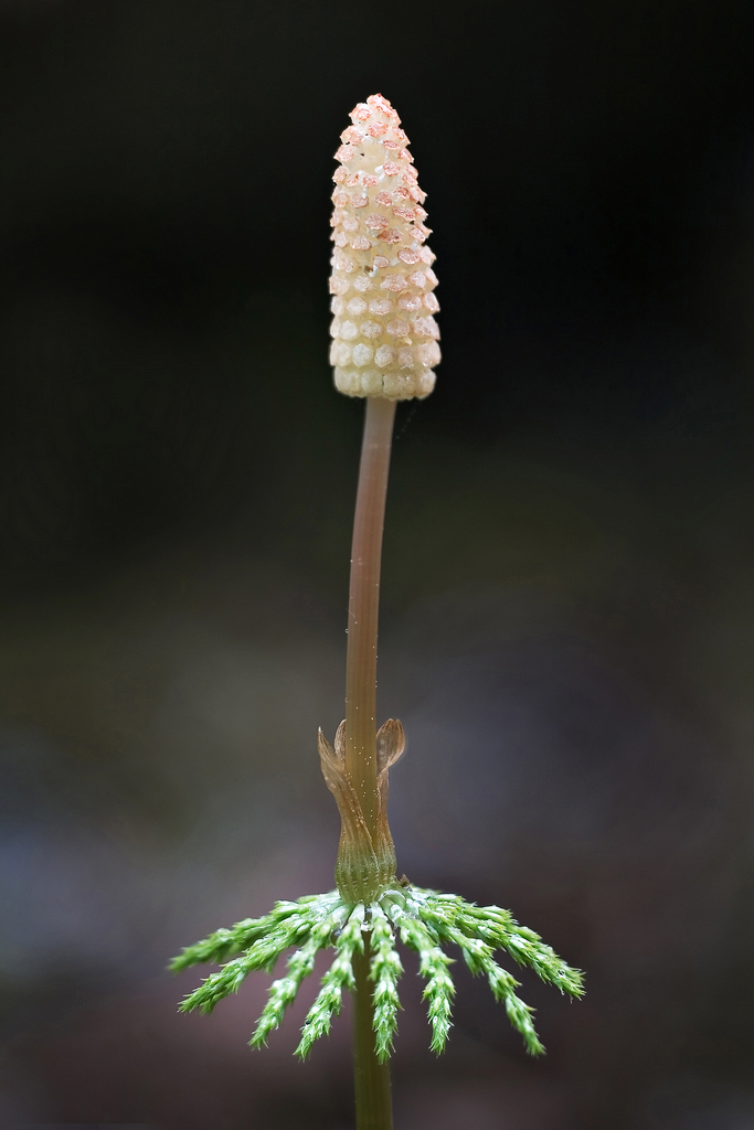 Meadow Horsetail (Equisetum pratense), strobilus (spore cone) Dysmorodrepanis 14:57, 28 May 2008 (UTC)